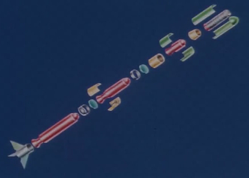 Scout rocket scheme still image from NASA's video.